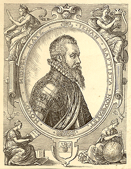 Portrait of the 16th Century Brussels Dutch author Iehan (Johan) Baptista Houwaert, Member of the Council of Brabant